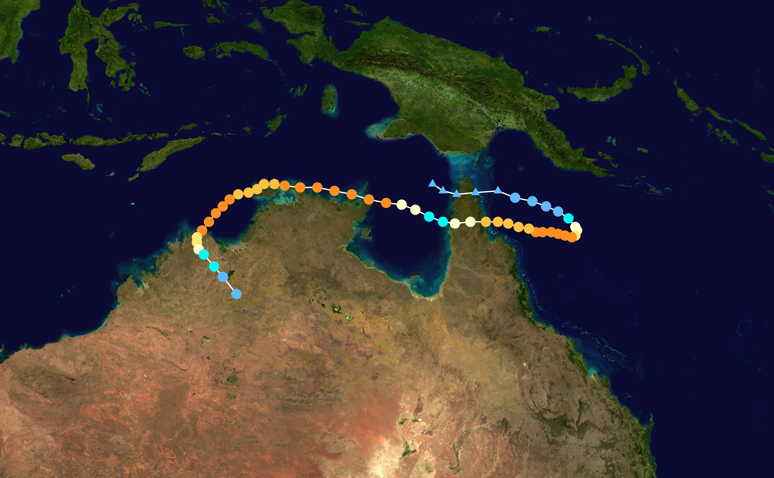 Cyclone Ingrid (2005) track. Uses the color scheme from the Saffir-Simpson Hurricane Scale.